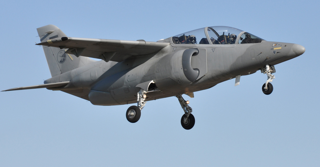 IA-63 Pampa